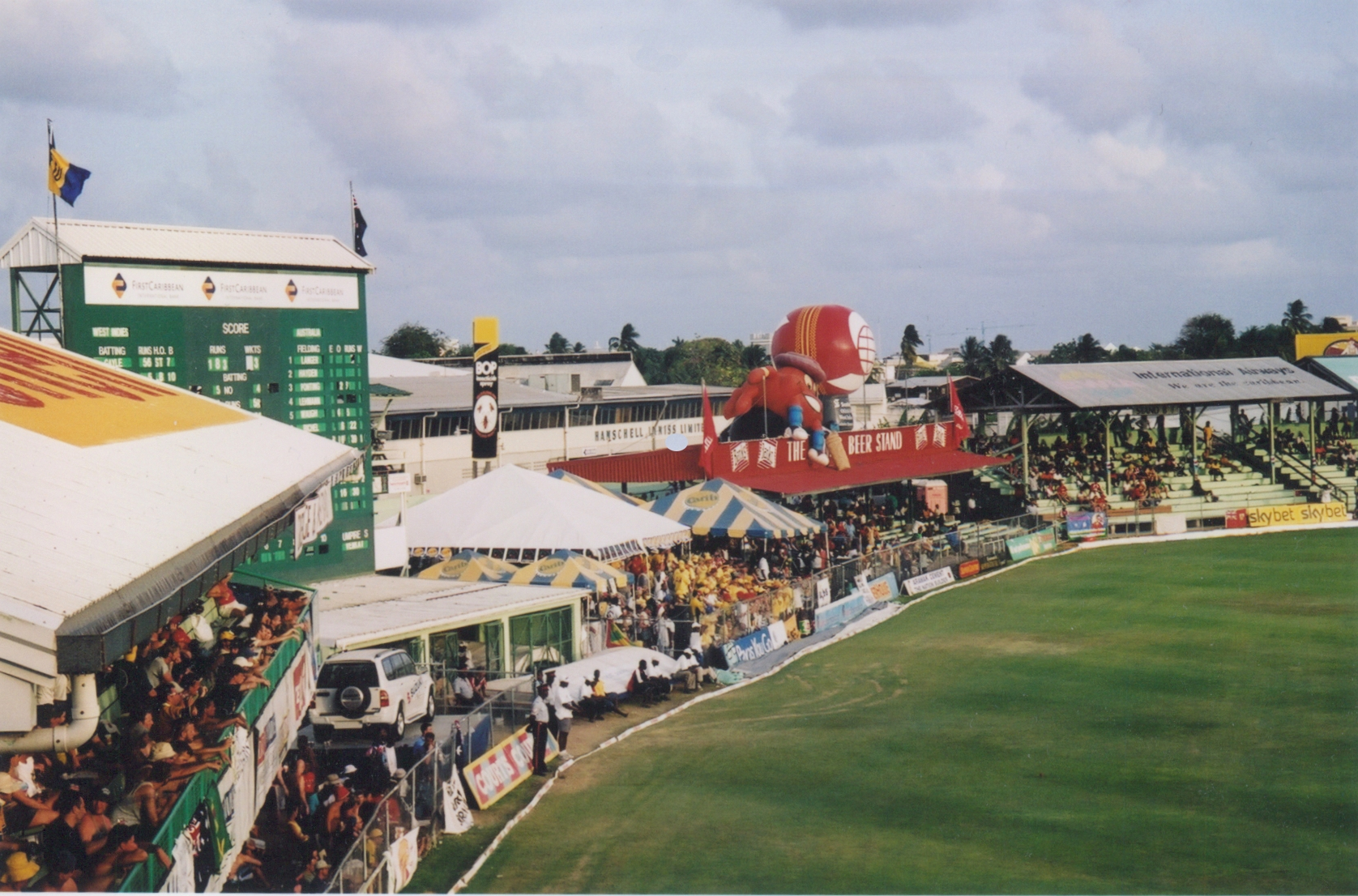 The Kensington Oval during the third Test of the Frank Worrell Trophy series in 2003 betweenthe West Indies cricket team and Australia.